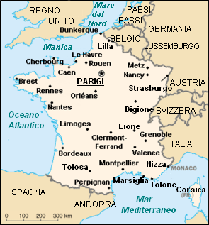 Italian version of Image:France map FR.png